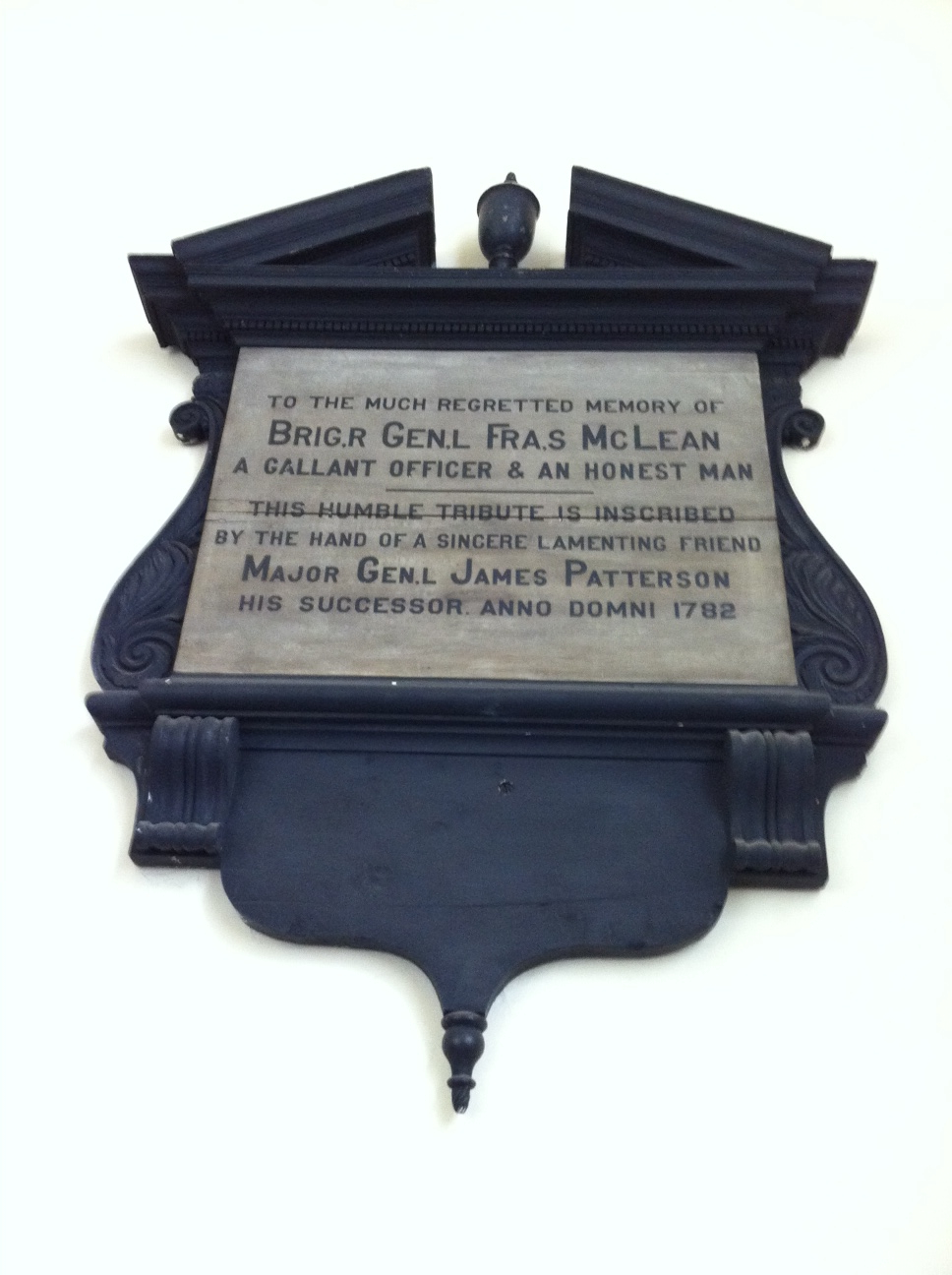 Fracis McLean Plaque, St Pauls Church, Halifax, Nova Scotia